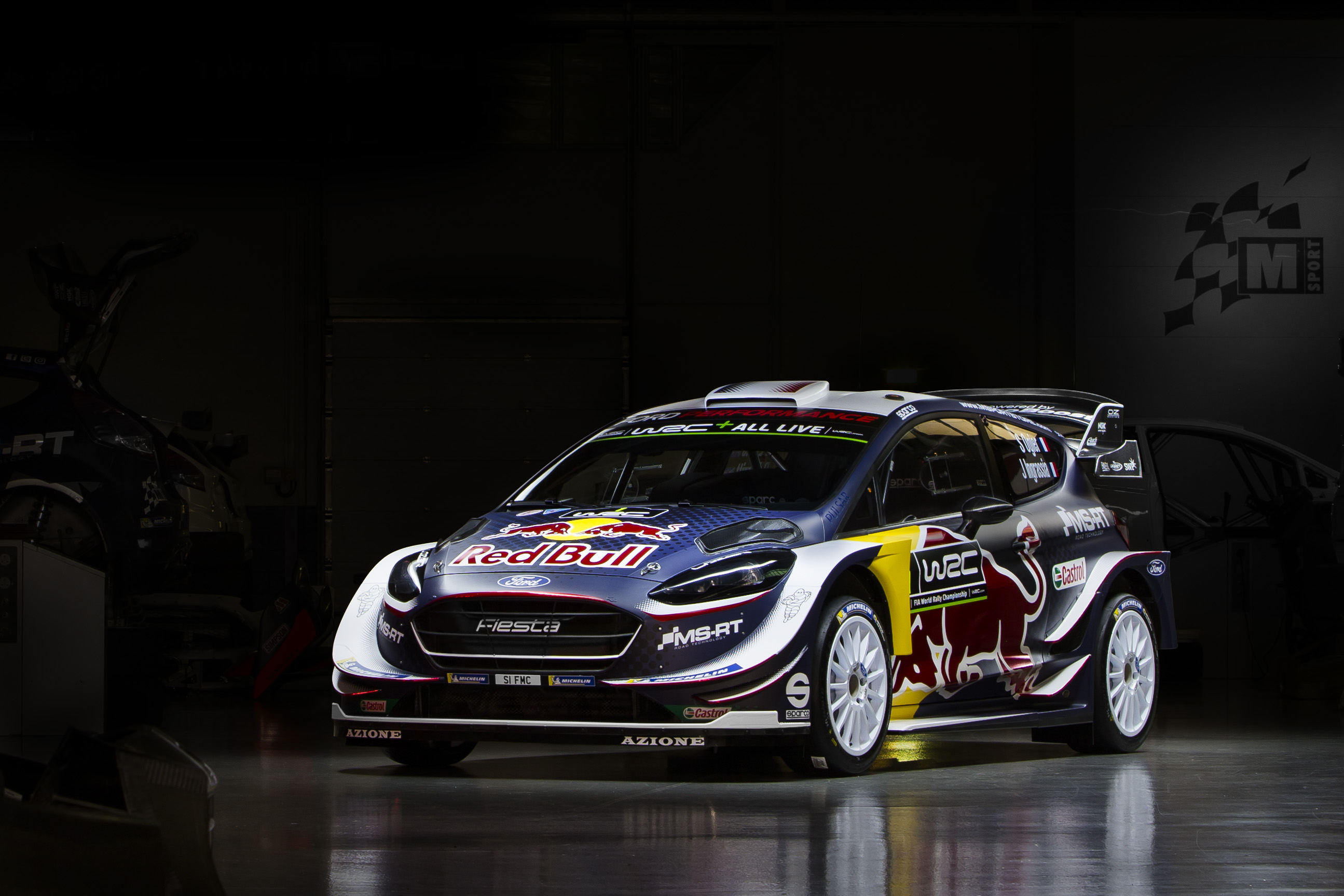 Ford Motor Company today announced a new agreement to supply extended technical and financial support to long-term motorsport partner M Sport – winner of the FIA World Rally Championship (WRC) Drivers’ and Manufacturers’ titles in 2017 with the EcoBoost-powered Ford Fiesta WRC.